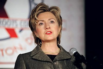 Hillary Clinton speaking at Families USA.